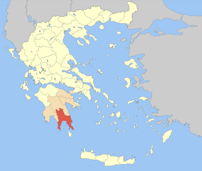 Locator map of Laconia prefecture (Νομός Λακωνίας) in Greece